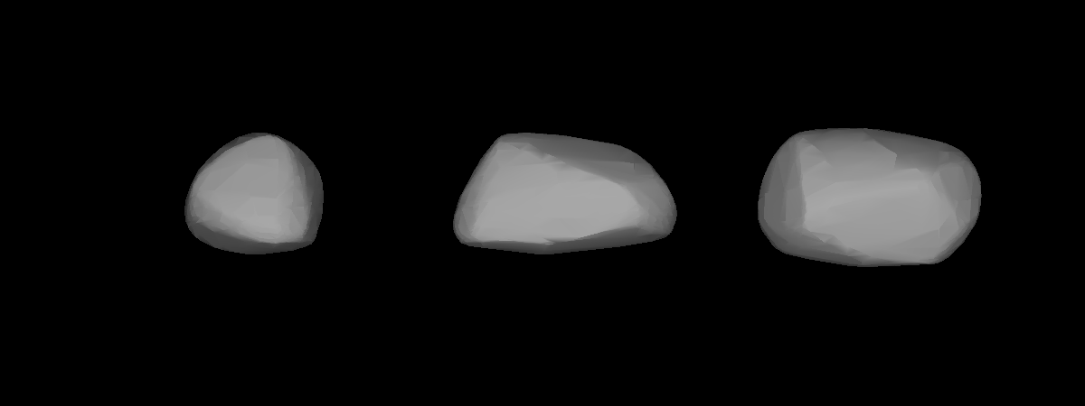 A three-dimensional model of 1401 Lavonne that was computed using light curve inversion techniques.